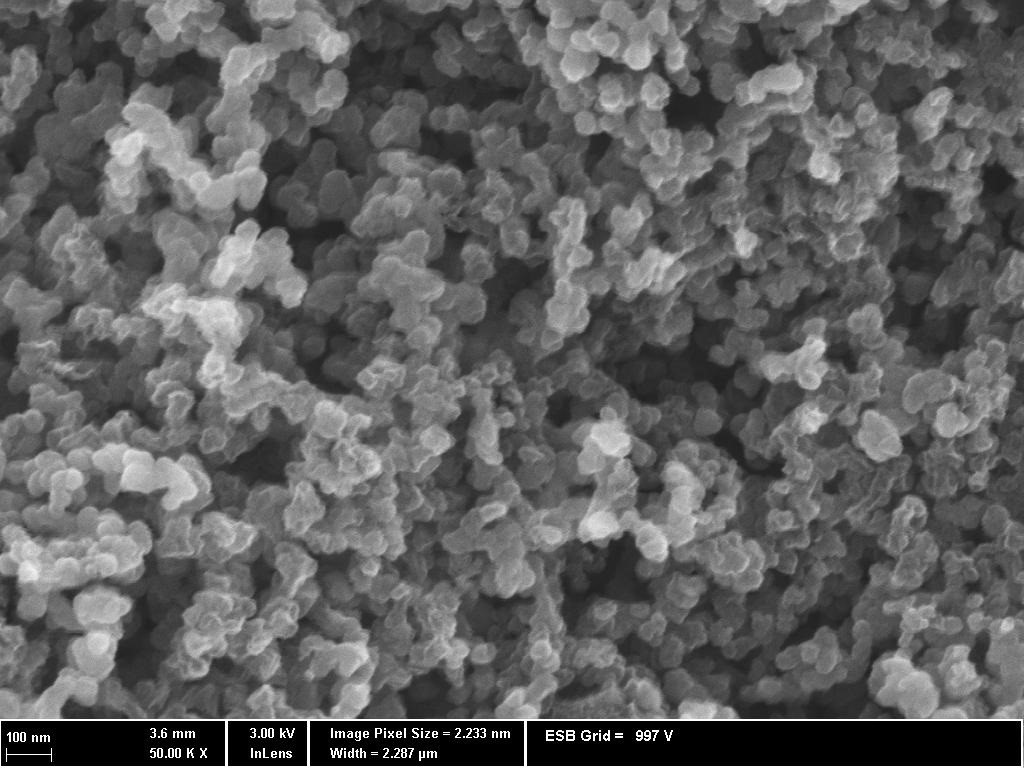 CHEZACARB structure (pictures from SEM, taken by PIB, there is no reference to an official article)